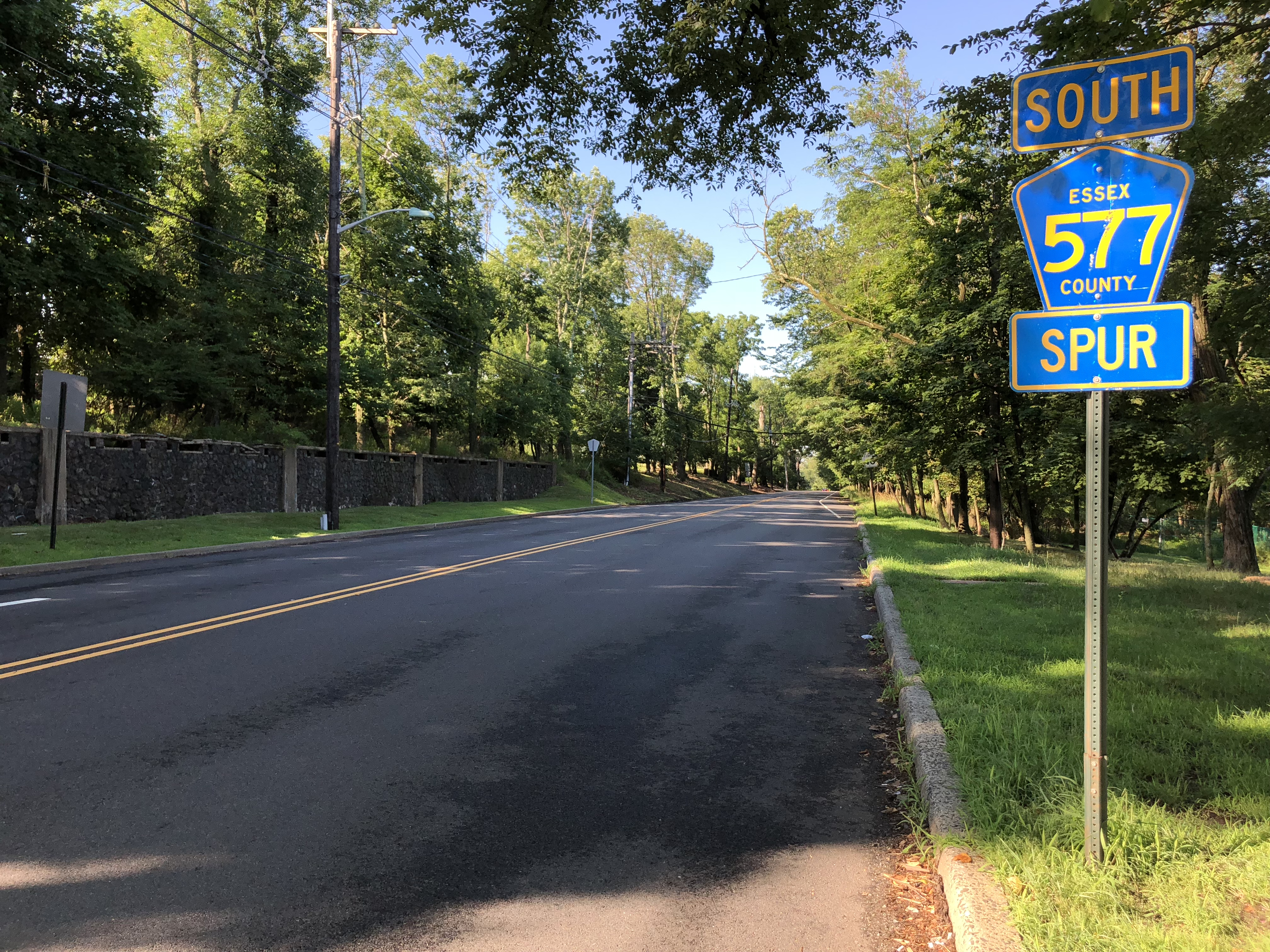 View south along Essex County Route 577 Spur (Prospect Avenue) at New Jersey State Route 10 and Essex County Route 577 (Mount Pleasant Avenue) in West Orange Township, Essex County, New Jersey